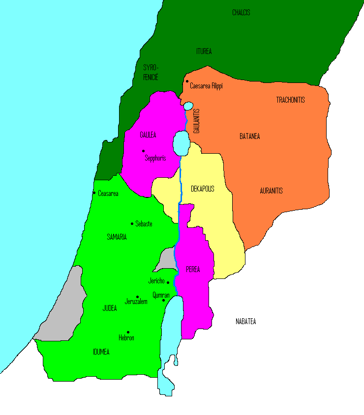 Israel after Herod's death